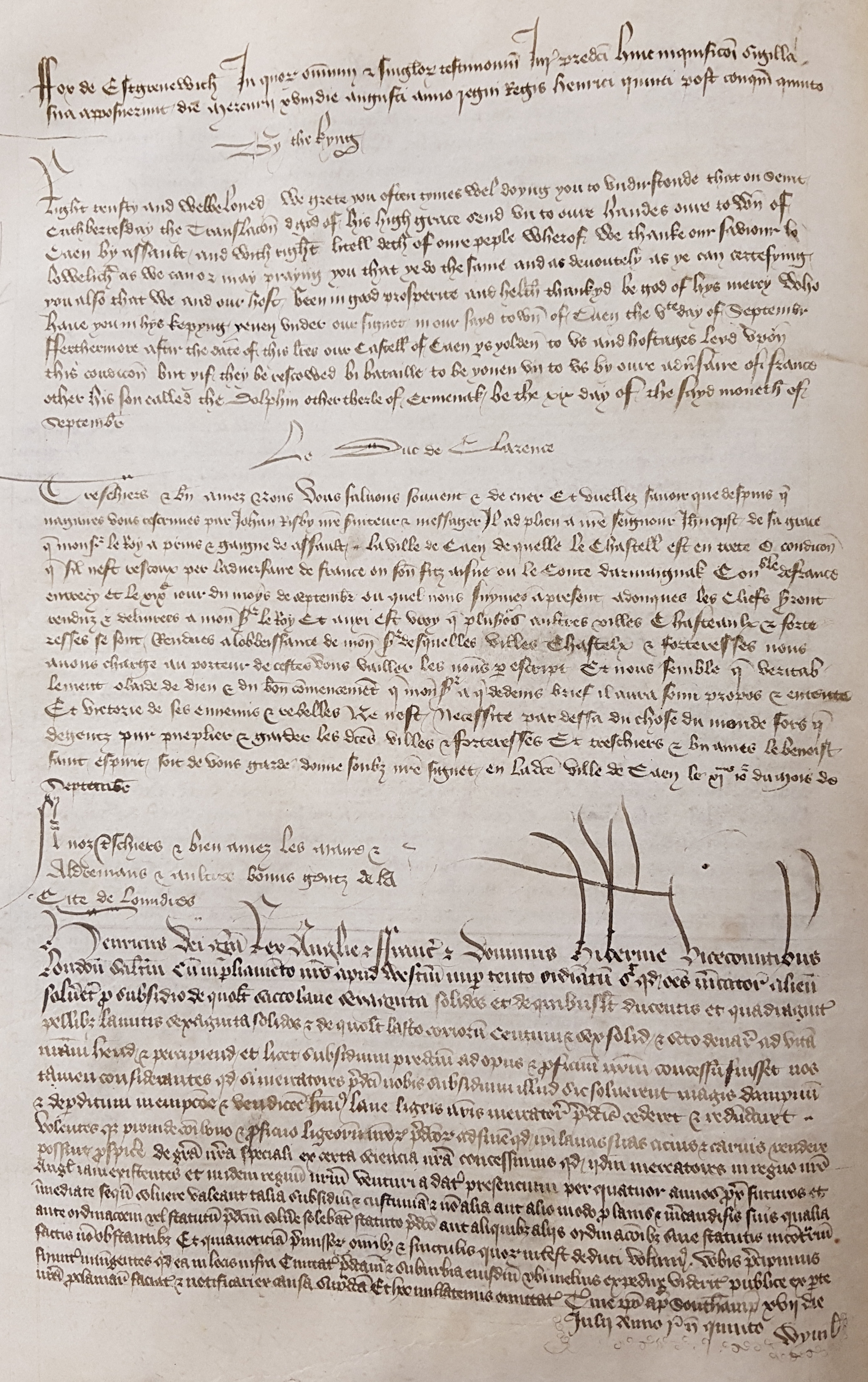 A page from Book I of the Letter-Books of the City of London, written during the period 1399-1421 AD, showing entries in English, French, and Latin, on display at the London Metropolitan Archives.